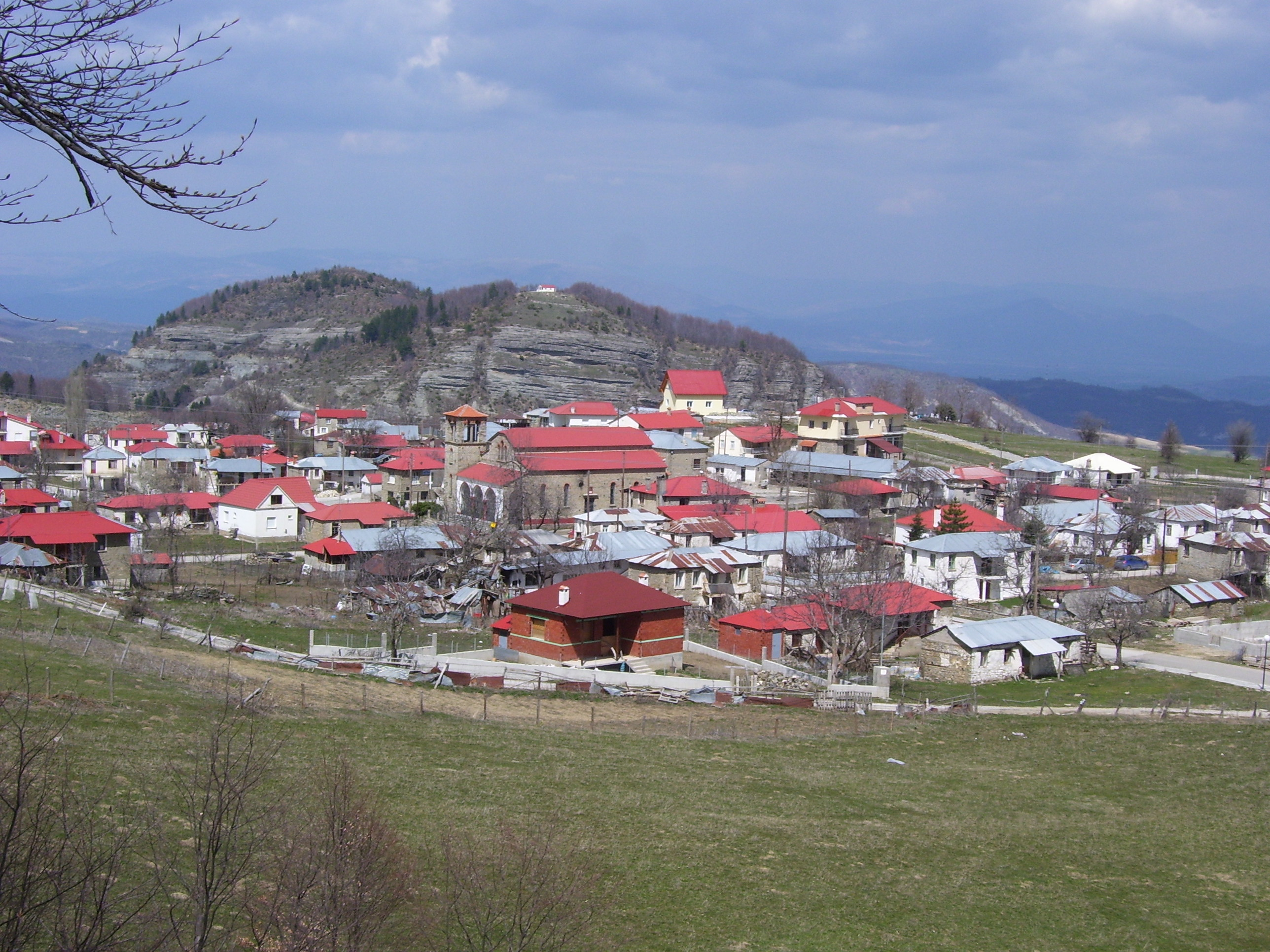 Village of Nea Kotili, Greece.